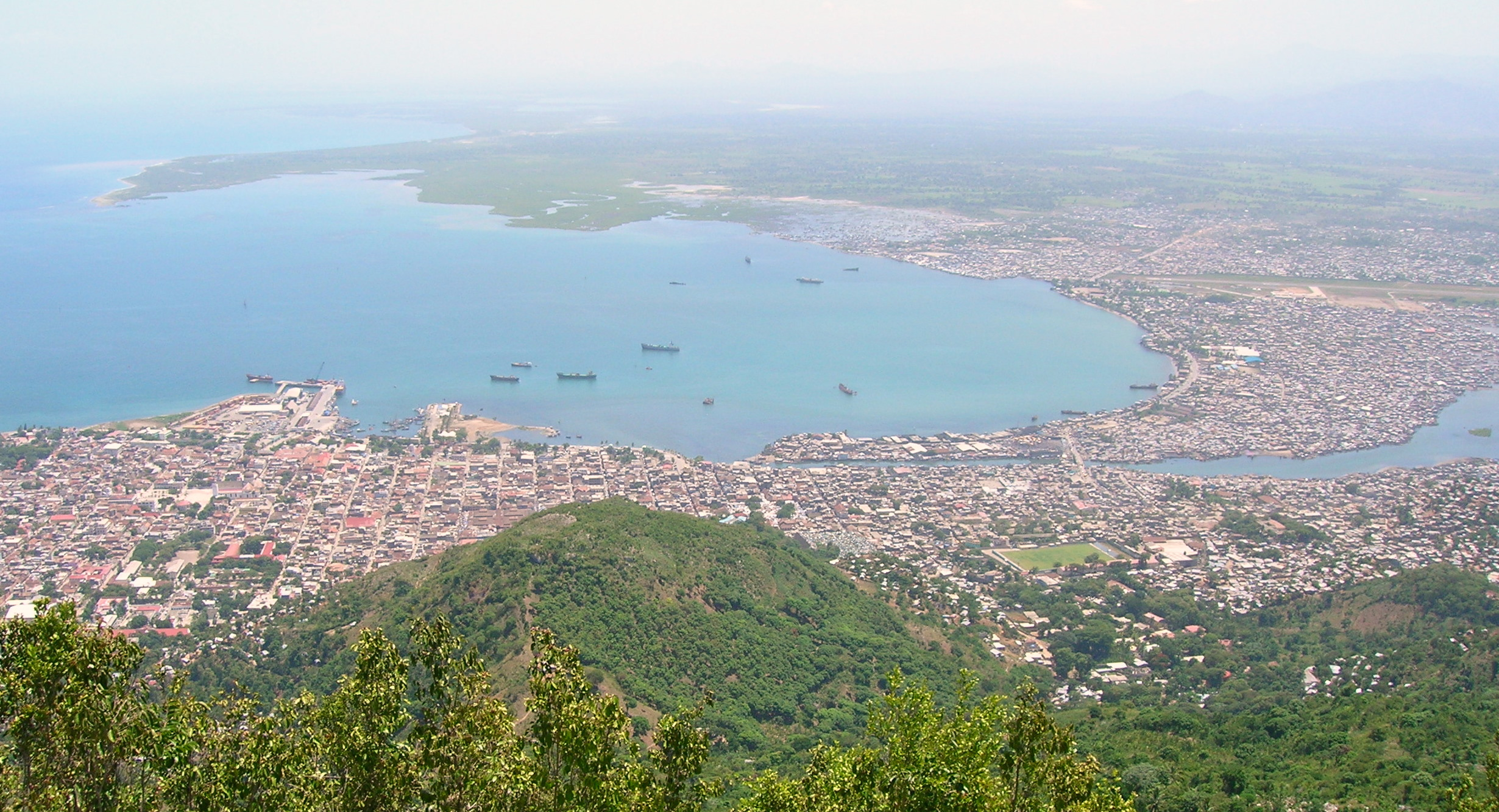 The Northen part of Cap-Haitien, seen from Morne Jean.